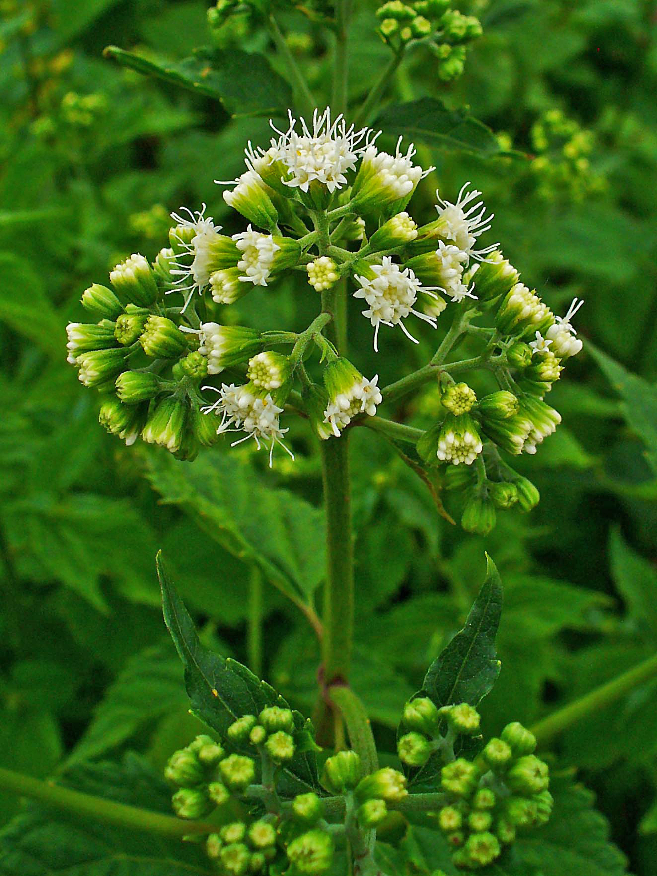 Aromatic Thoroughwort, inflorescences. The root is used in homeopathy as remedy: Ageratina aromatica (Eup-a.)